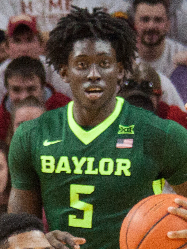 Iowa State vs. Baylor basketball